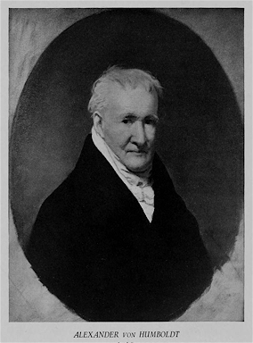 Alexander Von Humbolt